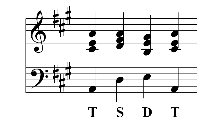 musical example for harmonic functions: simple cadence in A major